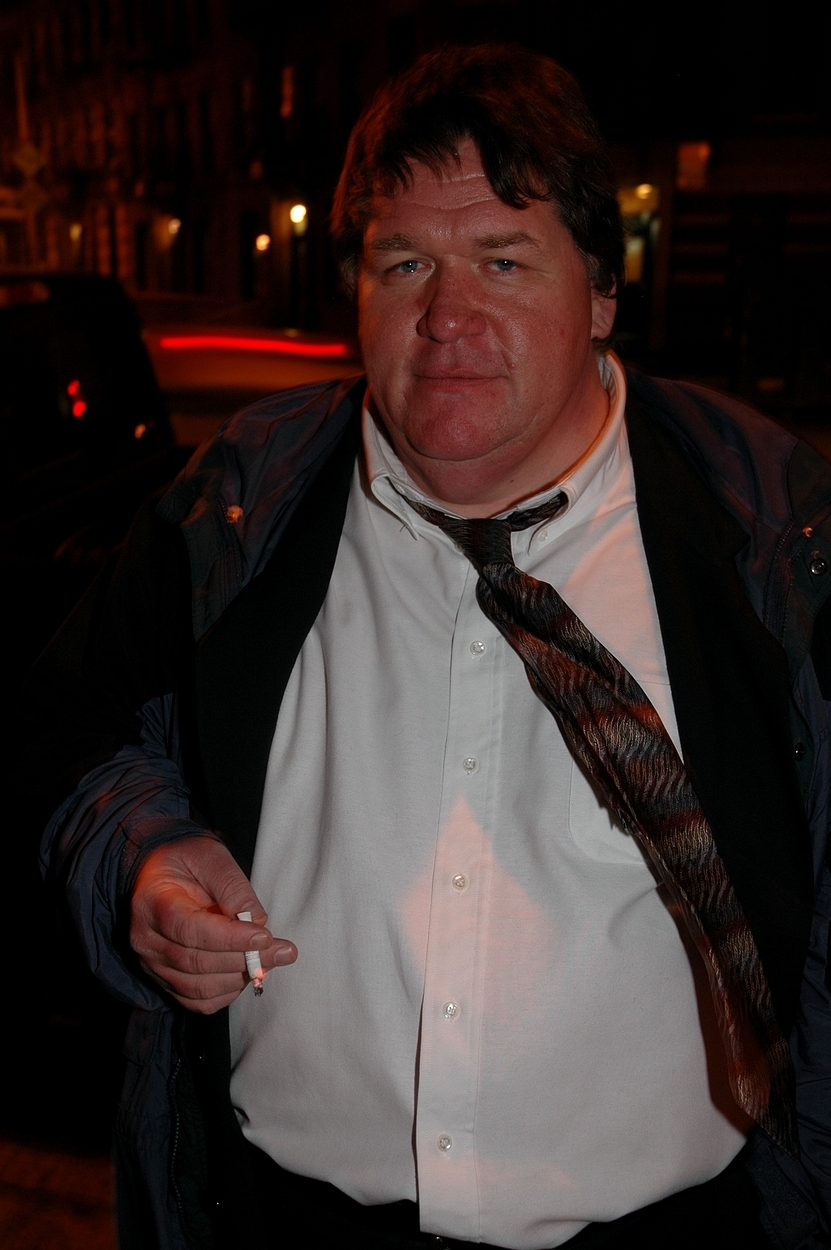 Delaney Williams